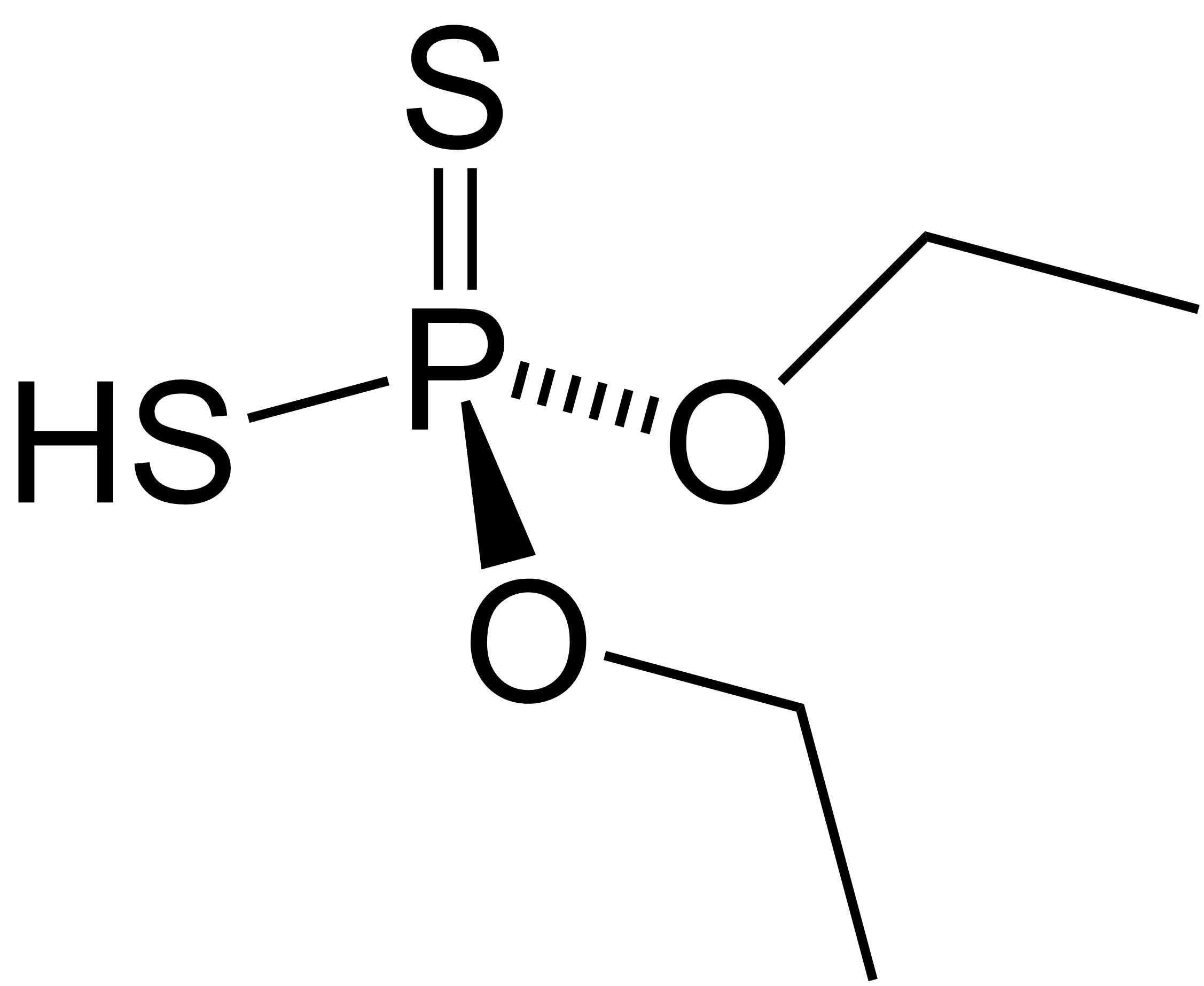 Diethyl dithiophosphoric acid bonding